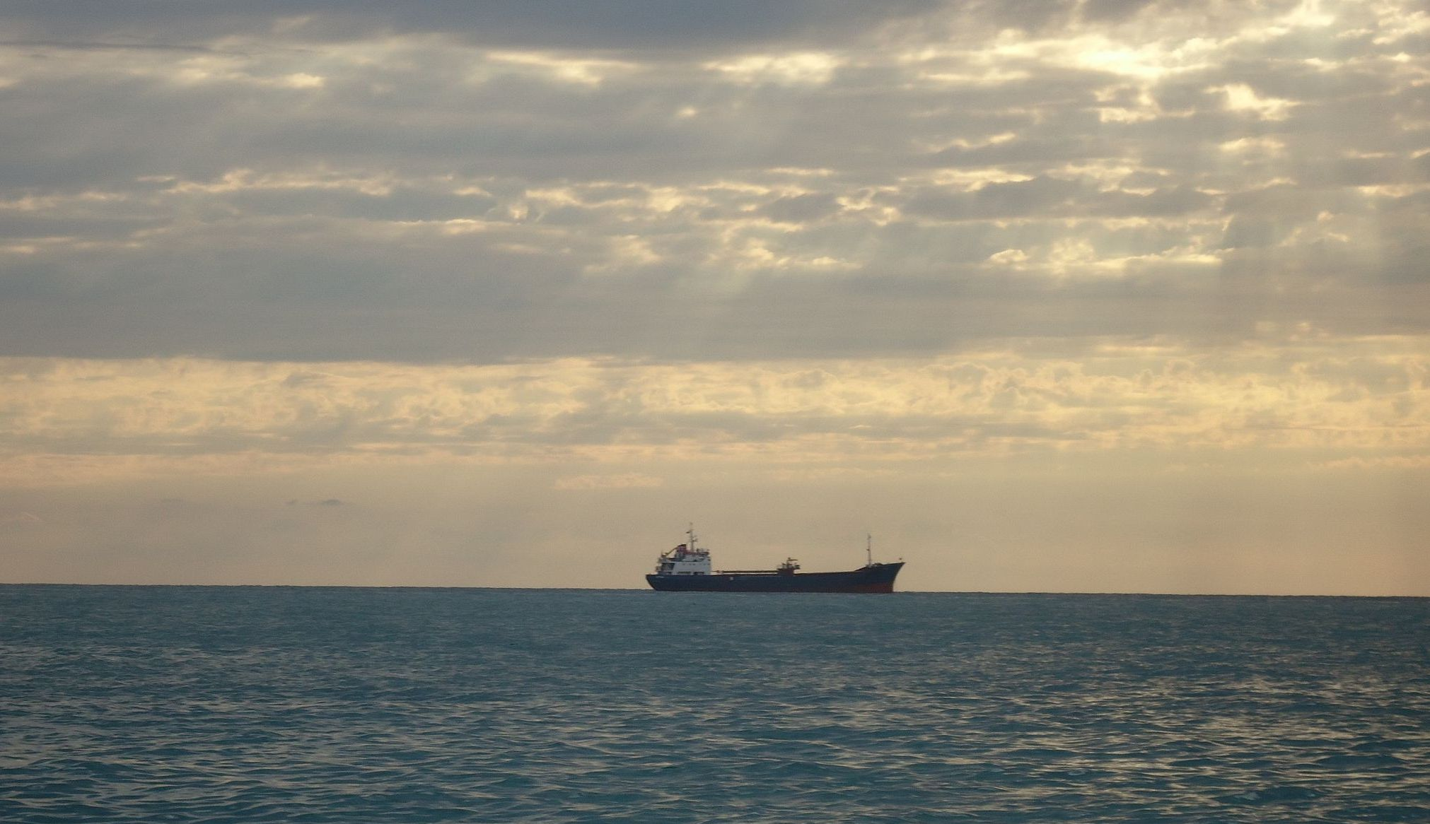 Black sea from Pitsunda - Alakhadzy village